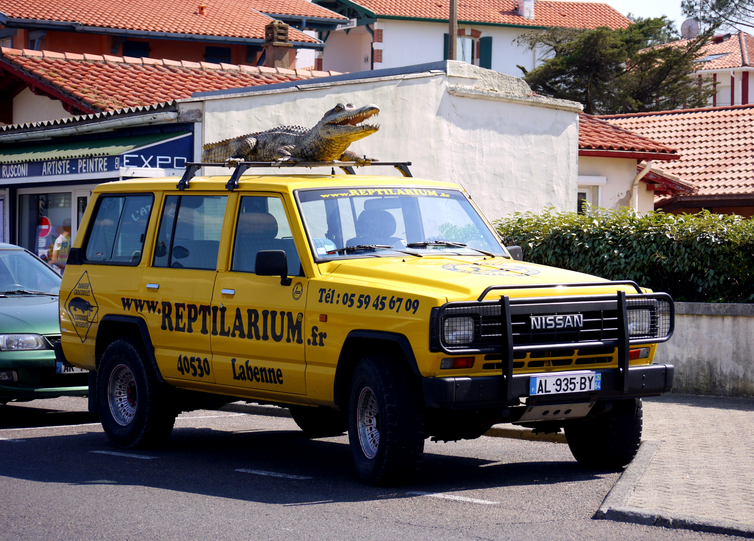 Nissan Patrol third generation - Reptilarium Labenne.